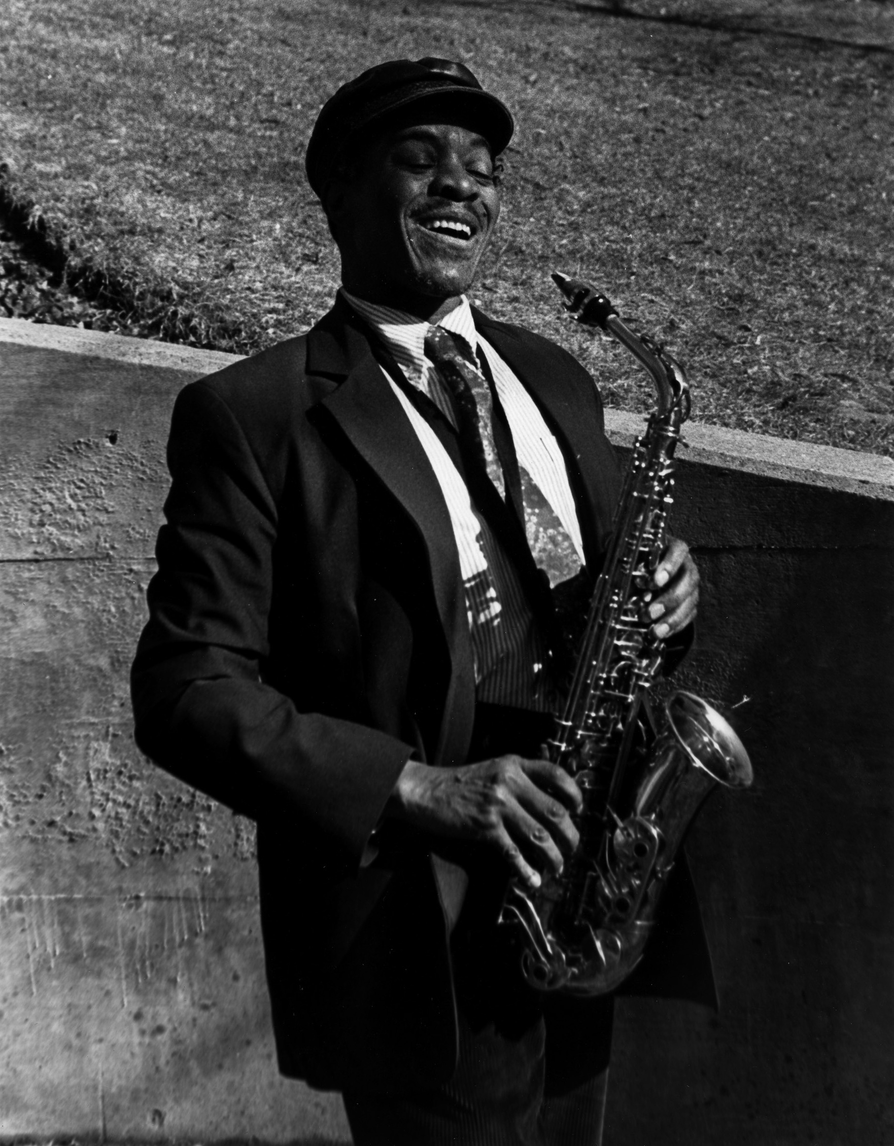 Saxophonist John Jenkins in Central Park, NYC 1992